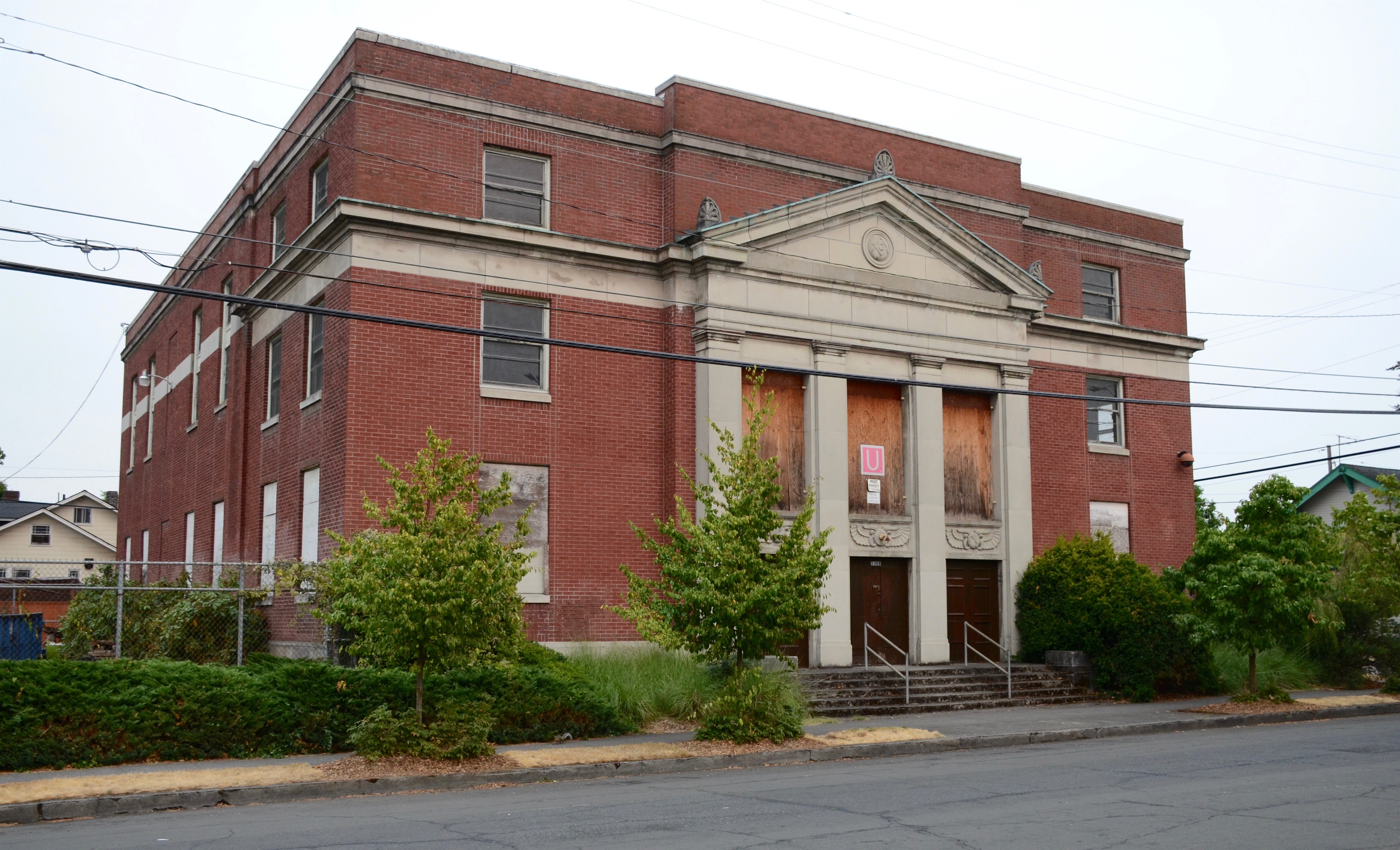 The former Mt. Hood Masonic Temple (built 1922–23), at 5308 North Commercial Avenue in Portland, Oregon, is listed on the U.S. National Register of Historic Places. This view shows the building's main (west) façade and its north side.